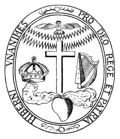 Seal of the Irish Catholic Confederation, 1642-1649